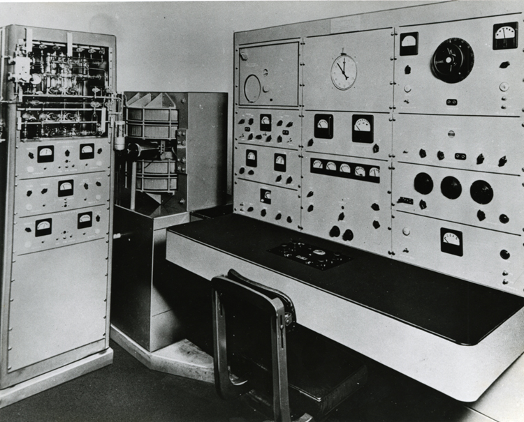 Black and white photograph of a Consolidated Engineering Corporation Model 21-101 analytical mass spectrometer. Photo used in CEC Model 21-101 Operating and Maintenance Manual, courtesy of R. P. Page; later used in Meyerson, Seymour. 1986. "Reminiscences of the early days of mass spectrometry in the petroleum industry." Organic Mass Spectrometry, 21 (4): 197-208.